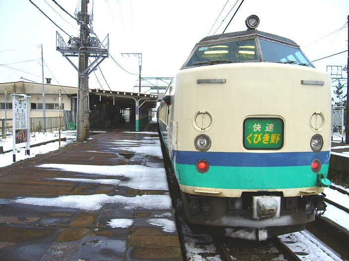 A JR East 485 series EMU at Mitsuke Station on a Kubikino rapid service